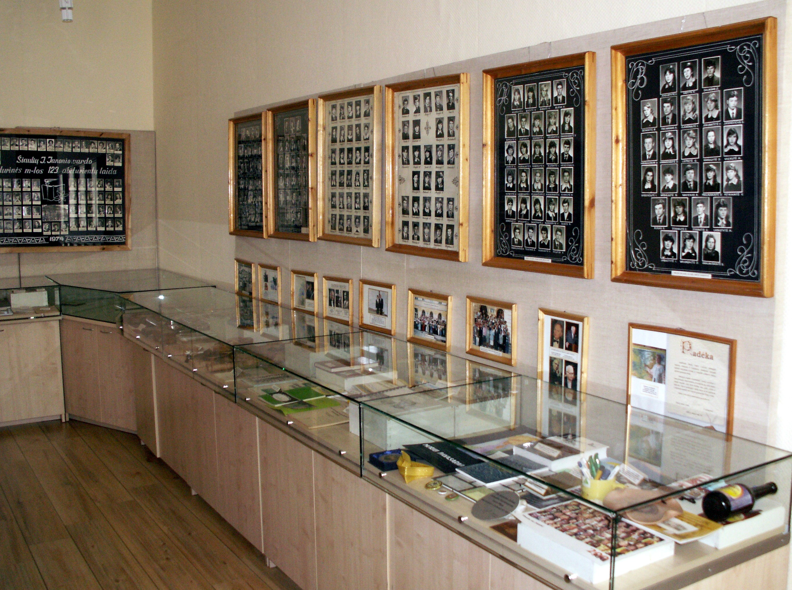 Šiauliai gymnasium, Lithuania